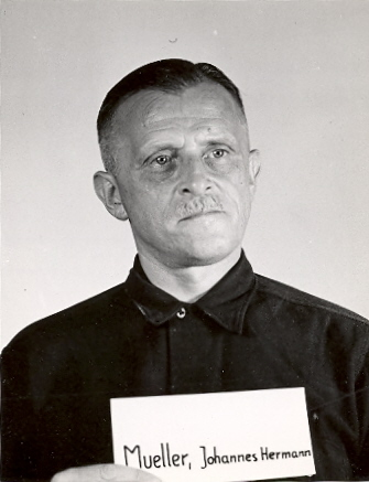 Johannes Hermann Mueller as a witness during the Nuremberg Trials.